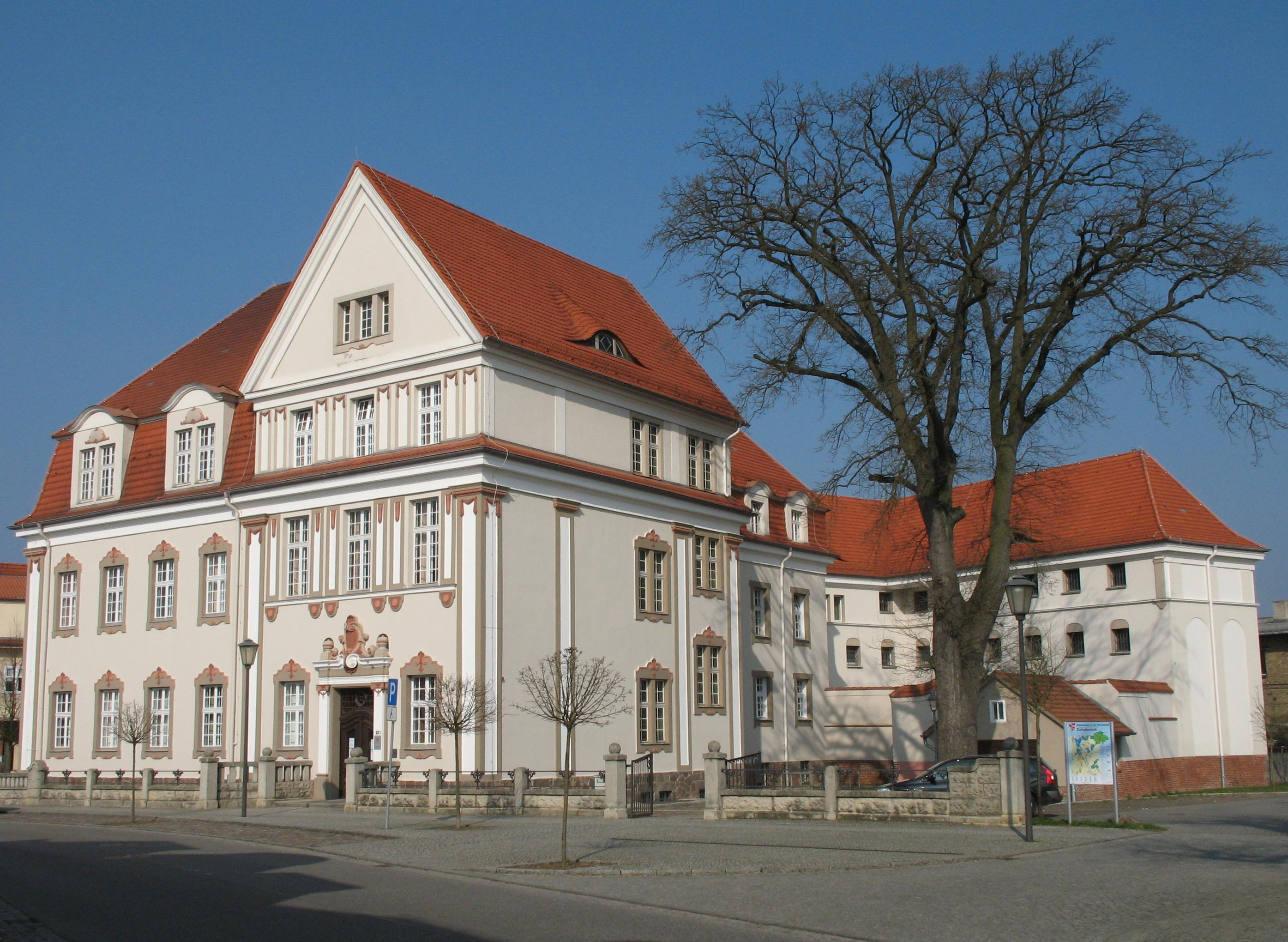 Local District Court in Zehdenick in Brandenburg, Germany